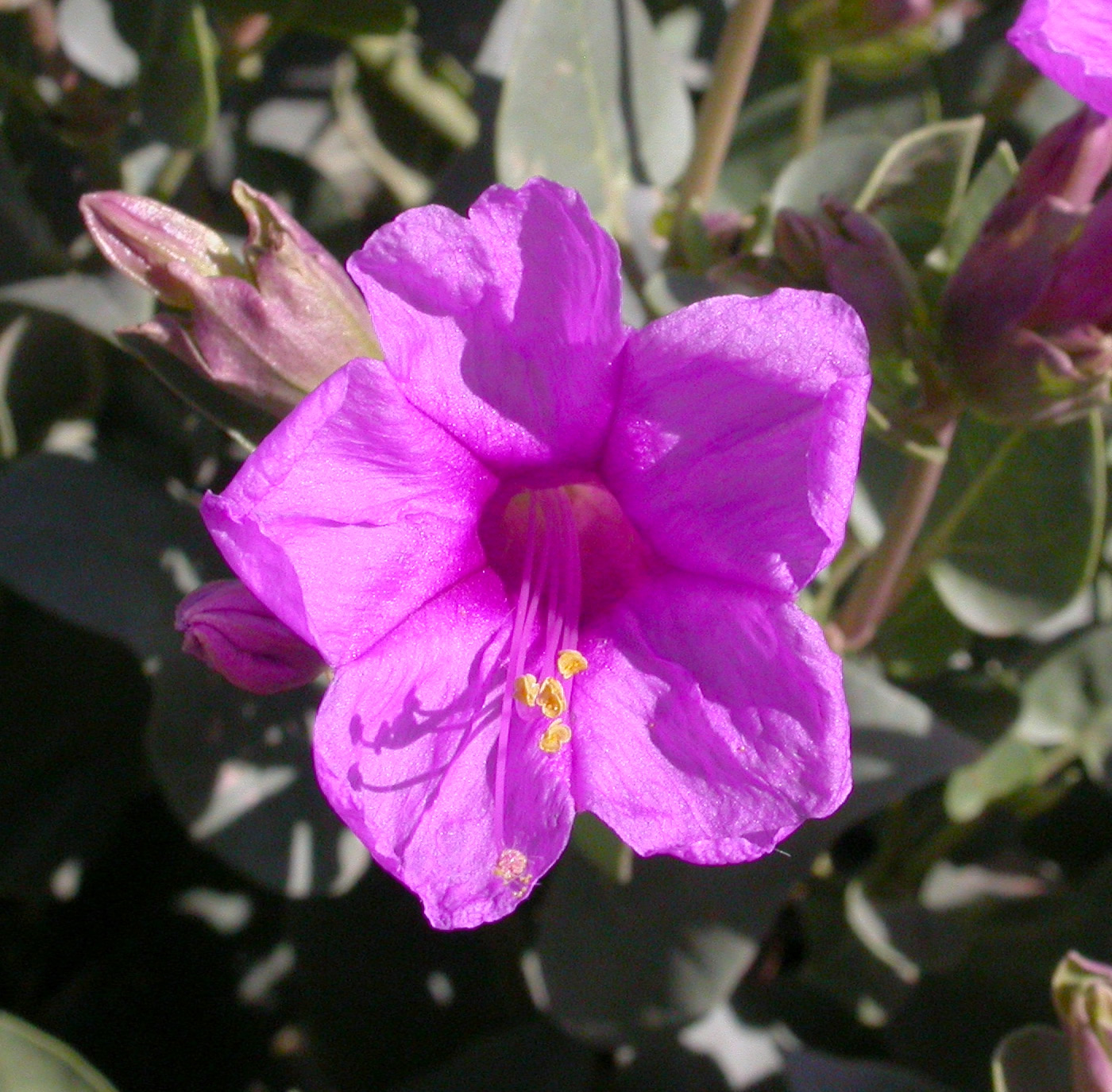 Northeast of Valle, Arizona.